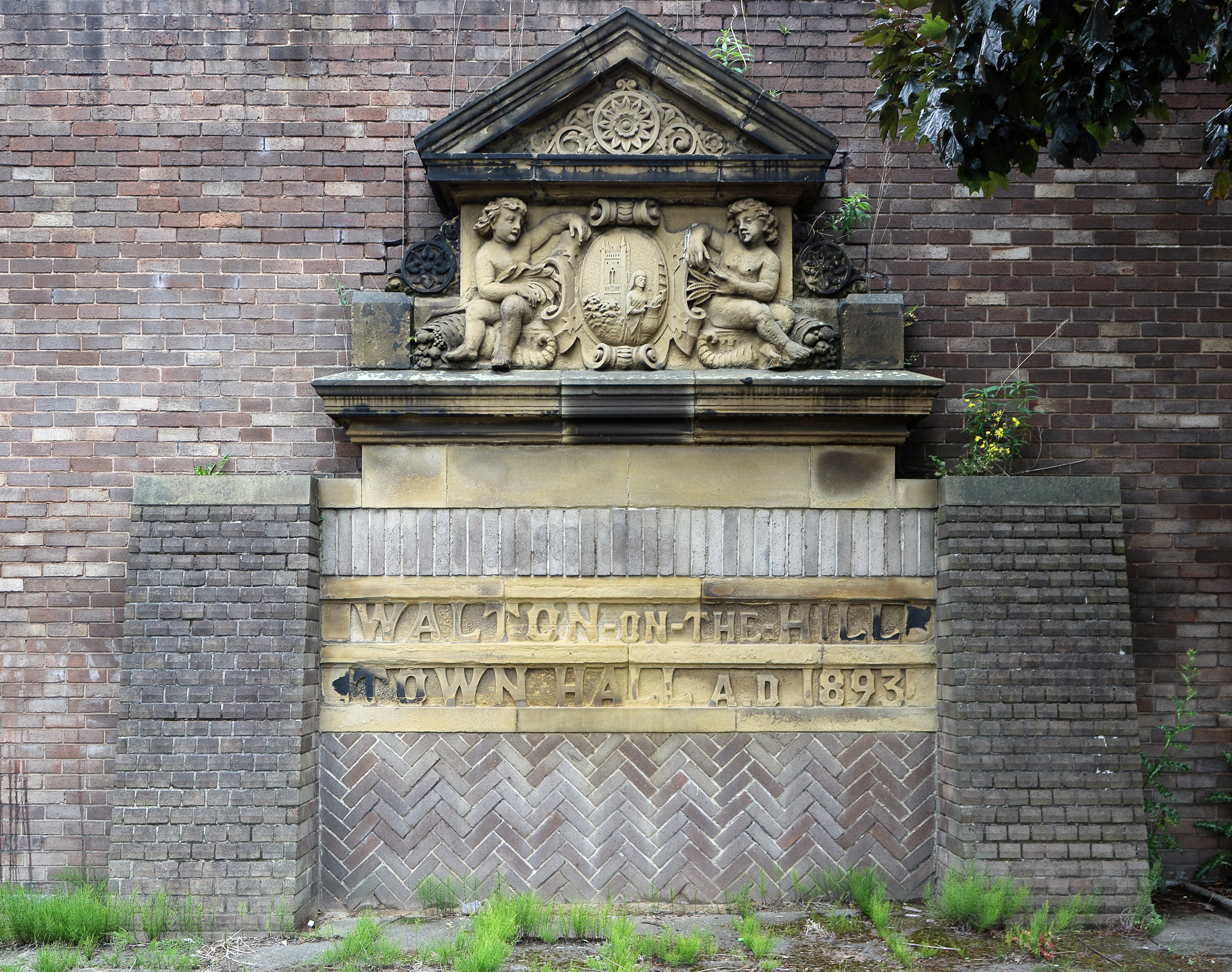 The township of Walton became part of Liverpool in 1895 but its Town Hall survived until the 1960s, when it was demolished to make way for the Queens Drive/Breeze Hill flyover. This stonework shows the coat of arms of Walton on the Hill, and can be seen to the south of the flyover opposite Church Lane.